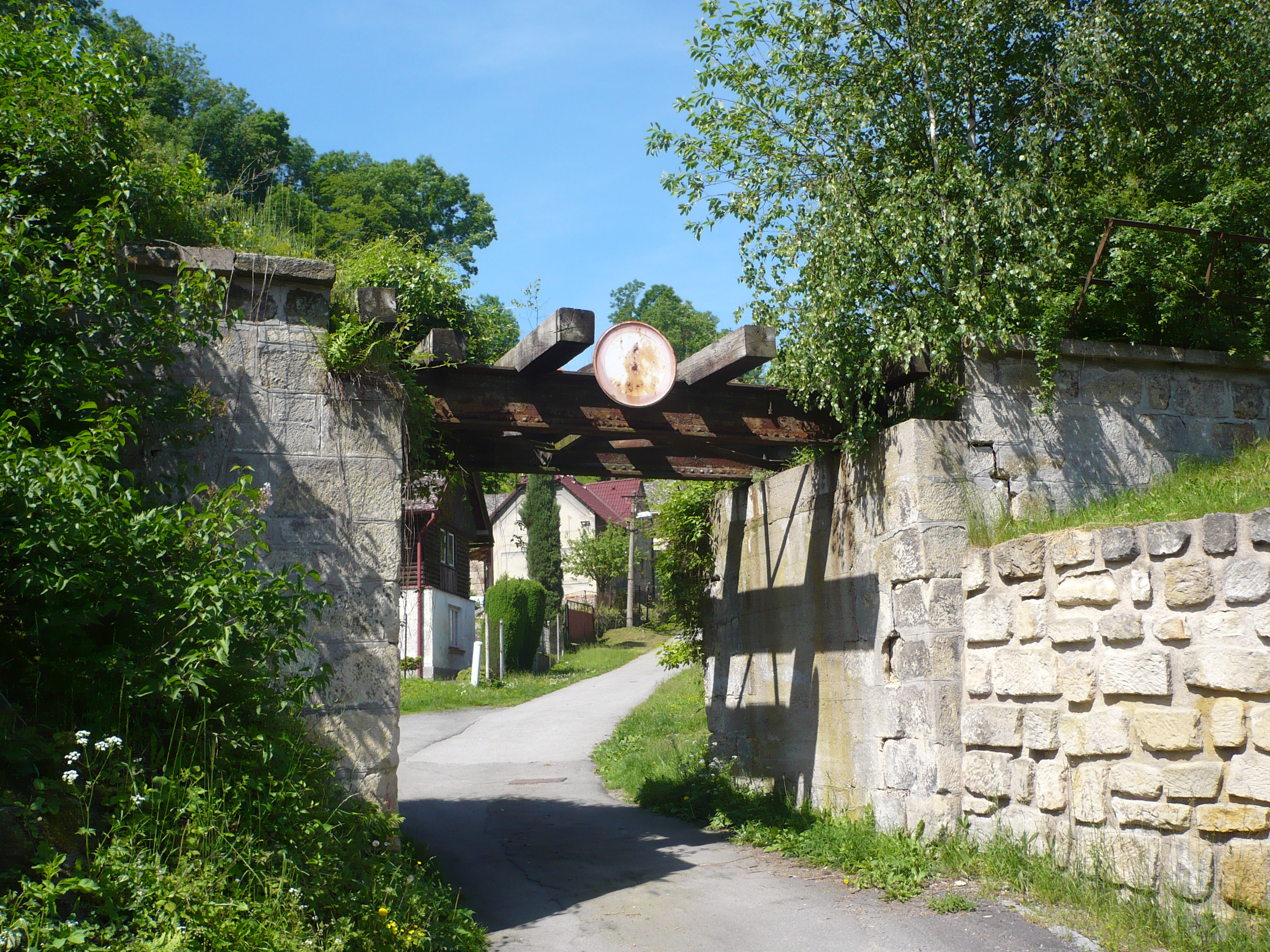 Abolished railway bridge in Dolní Cetno